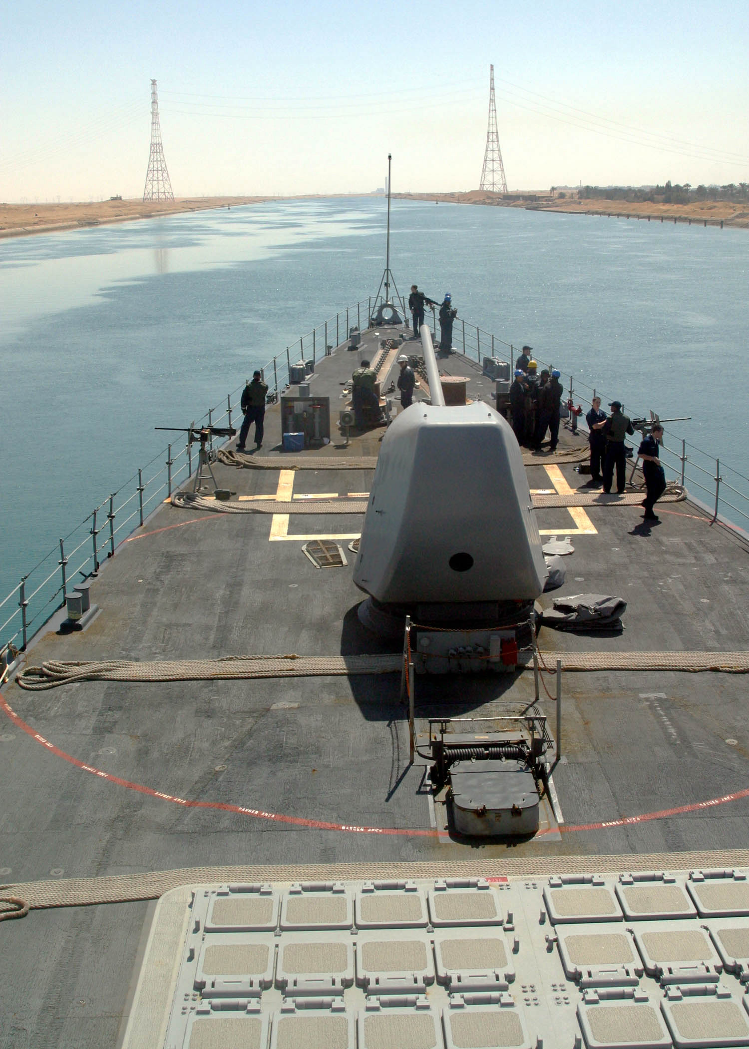 Suez Canal (March 14, 2003) -- The crew of the Spruance-class destroyer USS Deyo (DD 989) maintains a close watch as the ship transits the Suez Canal from the Mediterranean Sea to the Red Sea. Deyo is equipped with vertical launch Tomahawk missiles and can deliver more firepower and at greater distances than could the battleships of World War II. U.S. Navy photo by Journalist 2nd Class Patrick Reilly. (RELEASED)